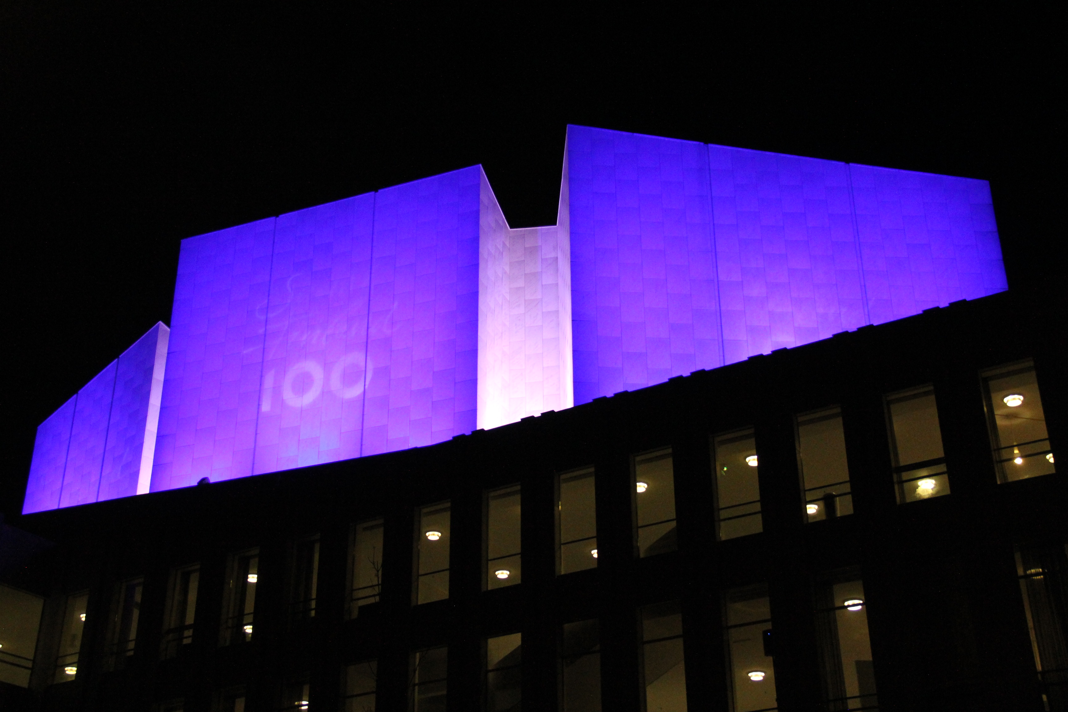 Finlandia Hall in Helsinki, Finland, illuminated blue and white with Suomi 100 logo to celebrate centenary of Finland’s independence in 2017.